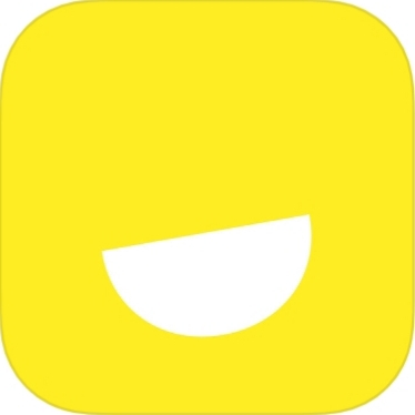 The icon for the app Yubo.